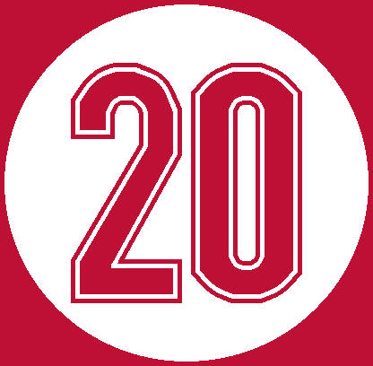 The number "20", retired for Frank Robinson by the Cincinnati Reds.